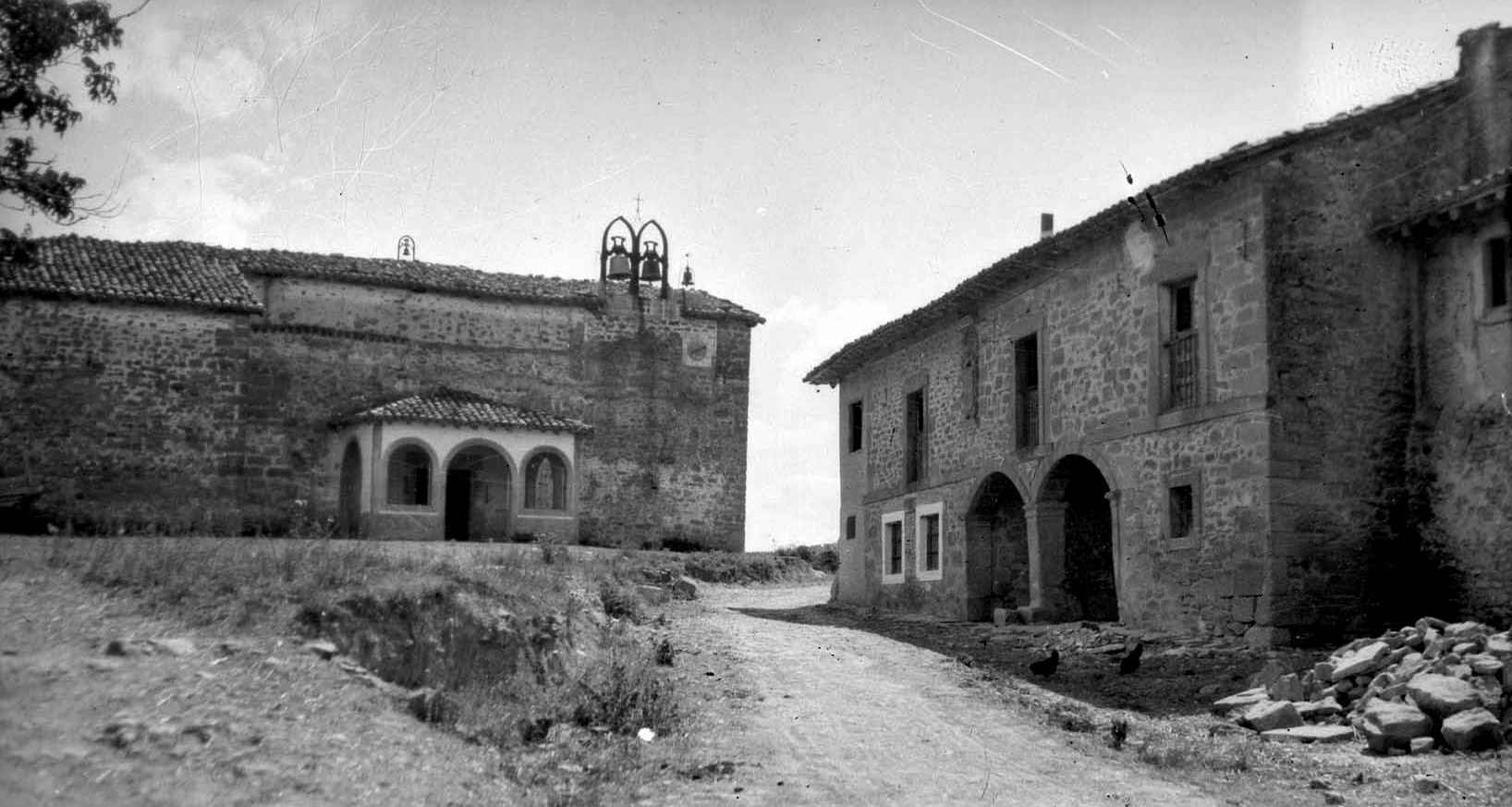 Manzanos (Álava, Spain) in 1951